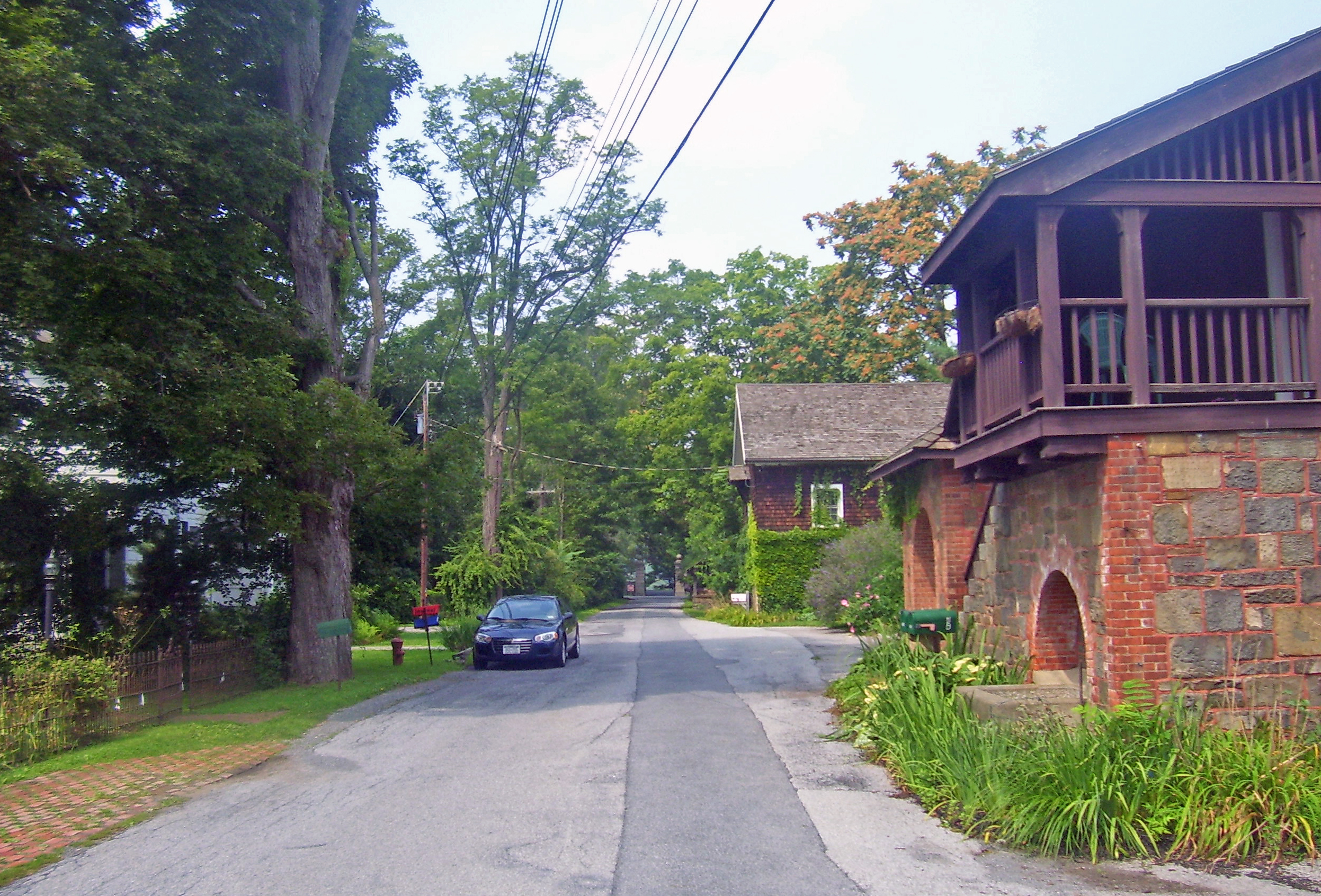 Vanderbilt Lane Historic District, Hyde Park, NY, USA, looking west